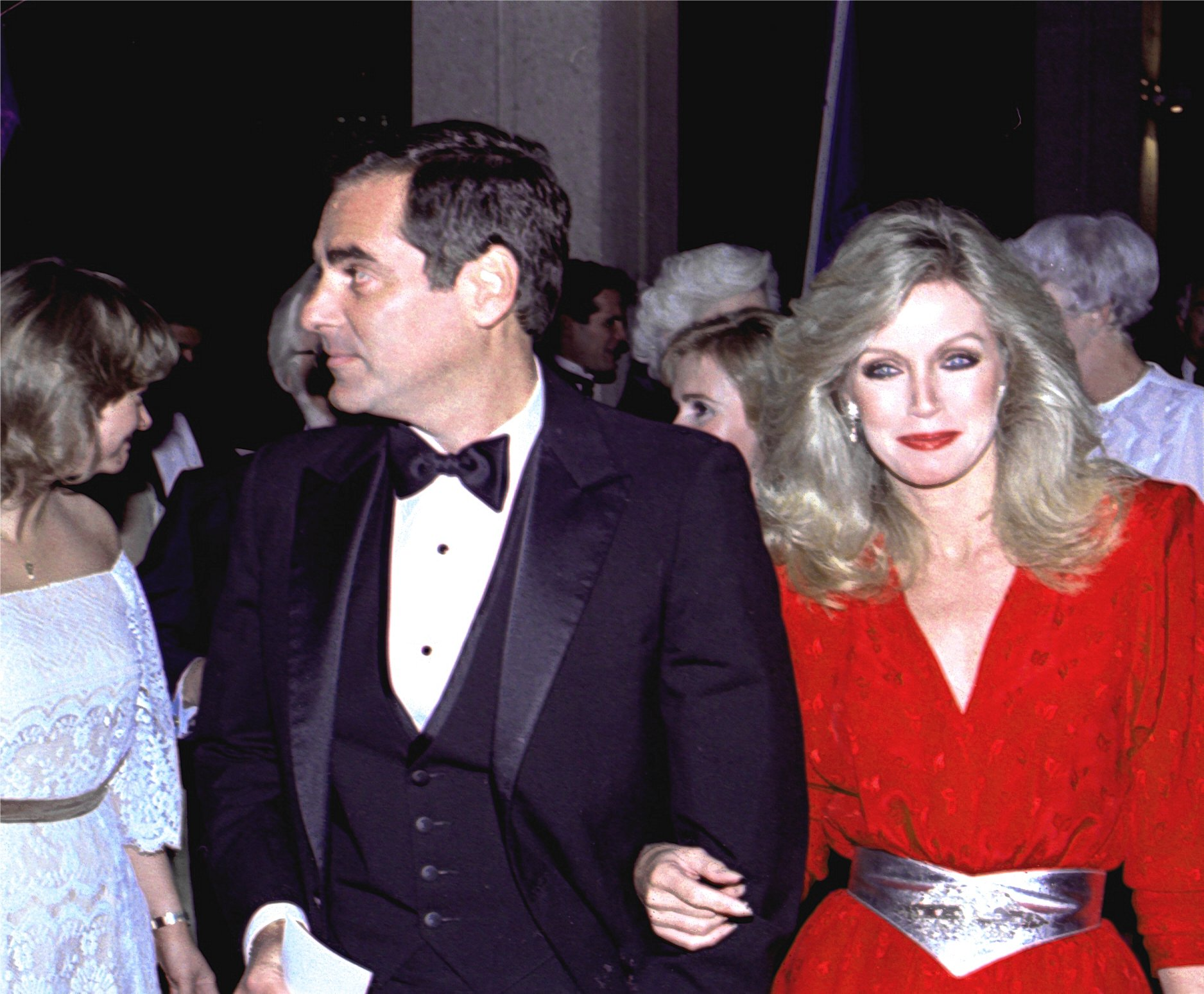 Donna Mills at the Filmex Tribute to Elixabeth Taylor, Dorothy Chandler Pavilion, November 1981. NOTE: Permission granted to copy, publish, broadcast or post any of my photos, but please credit "photo by Alan Light" if you can. Thanks.